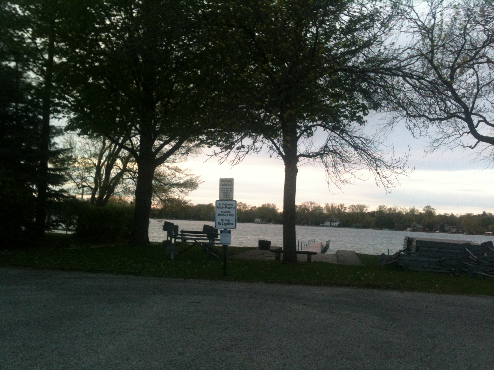 View north of Crystal Lake from CCAPOA Gate 3 Beach